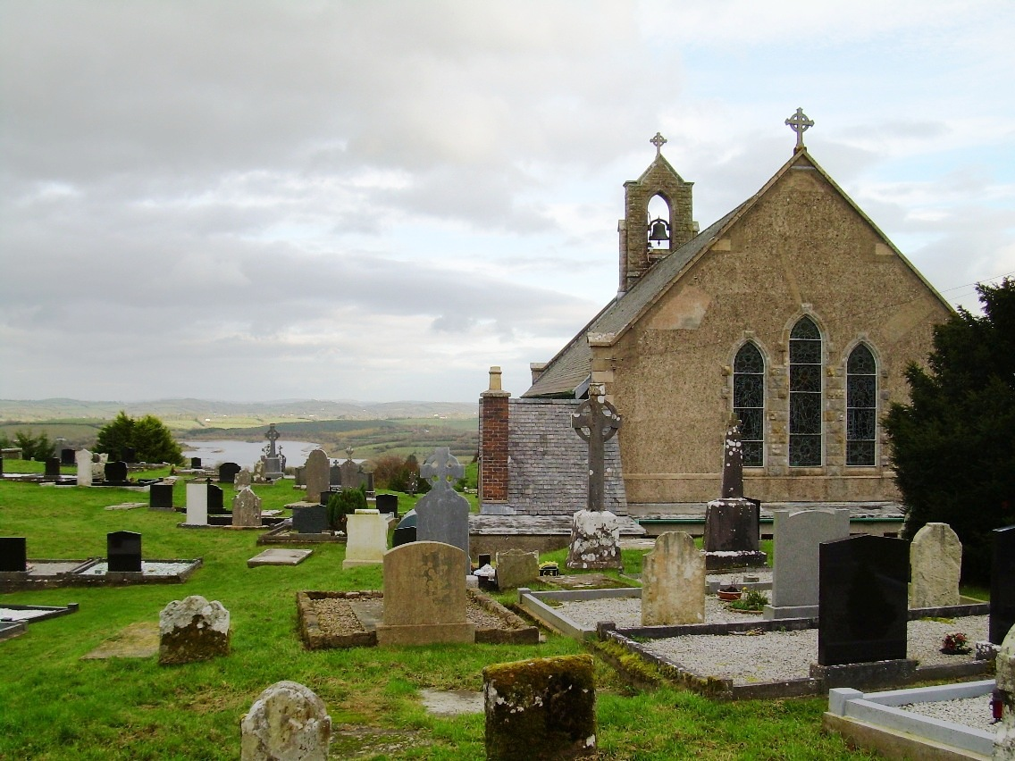 Graveyard at the Sacred Heart Church at Boho Diamond overlooking the Boho Countryside Picture taken with a Nikon coolpix L4.